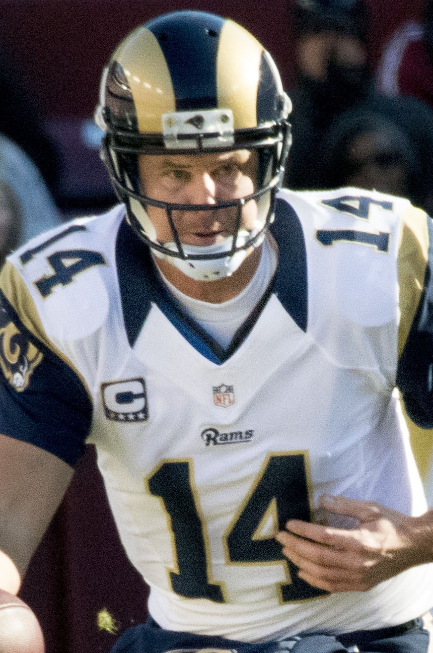 Rams at Redskins 12/7/14